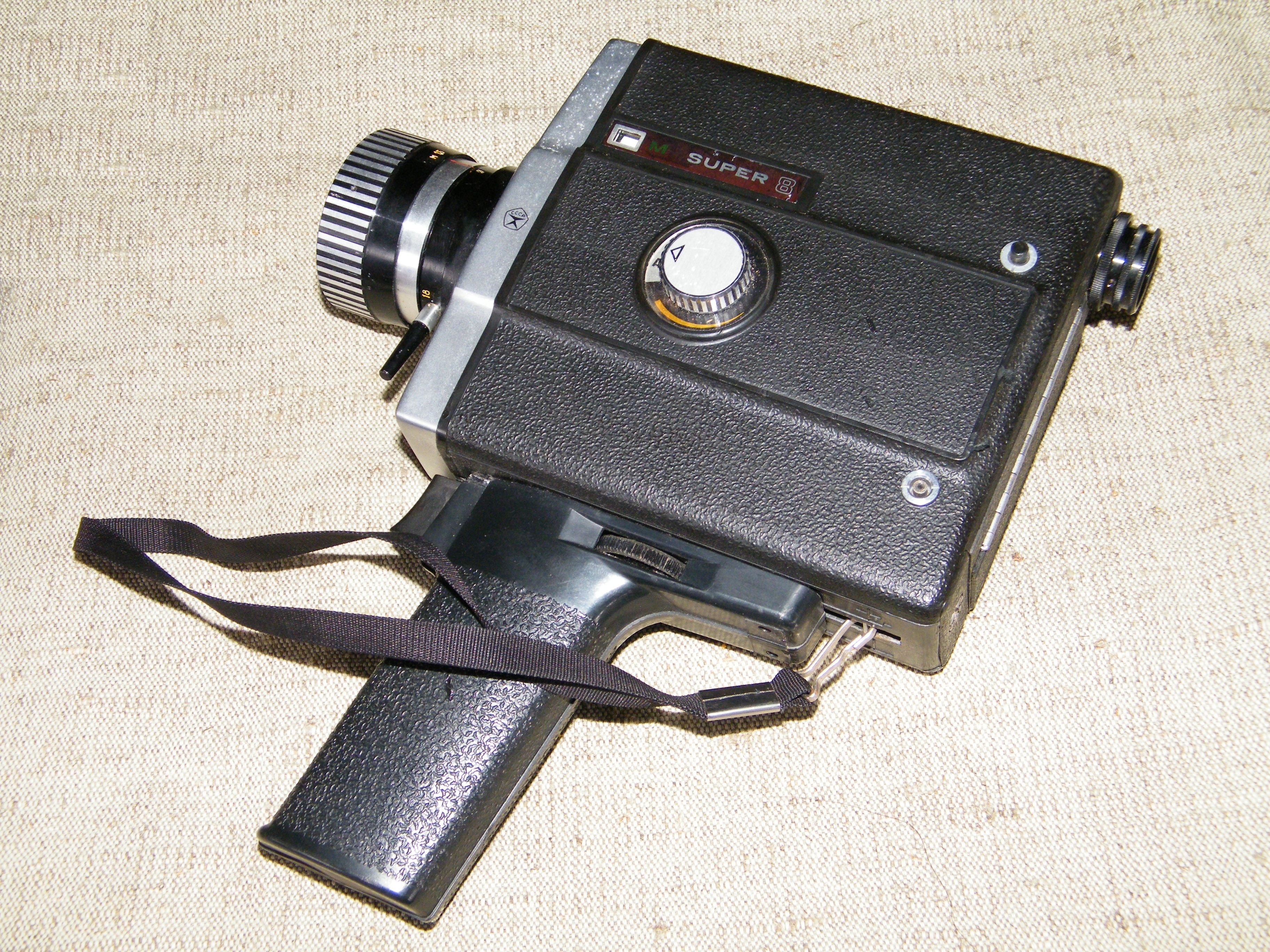 Аврора-215 кинокамера